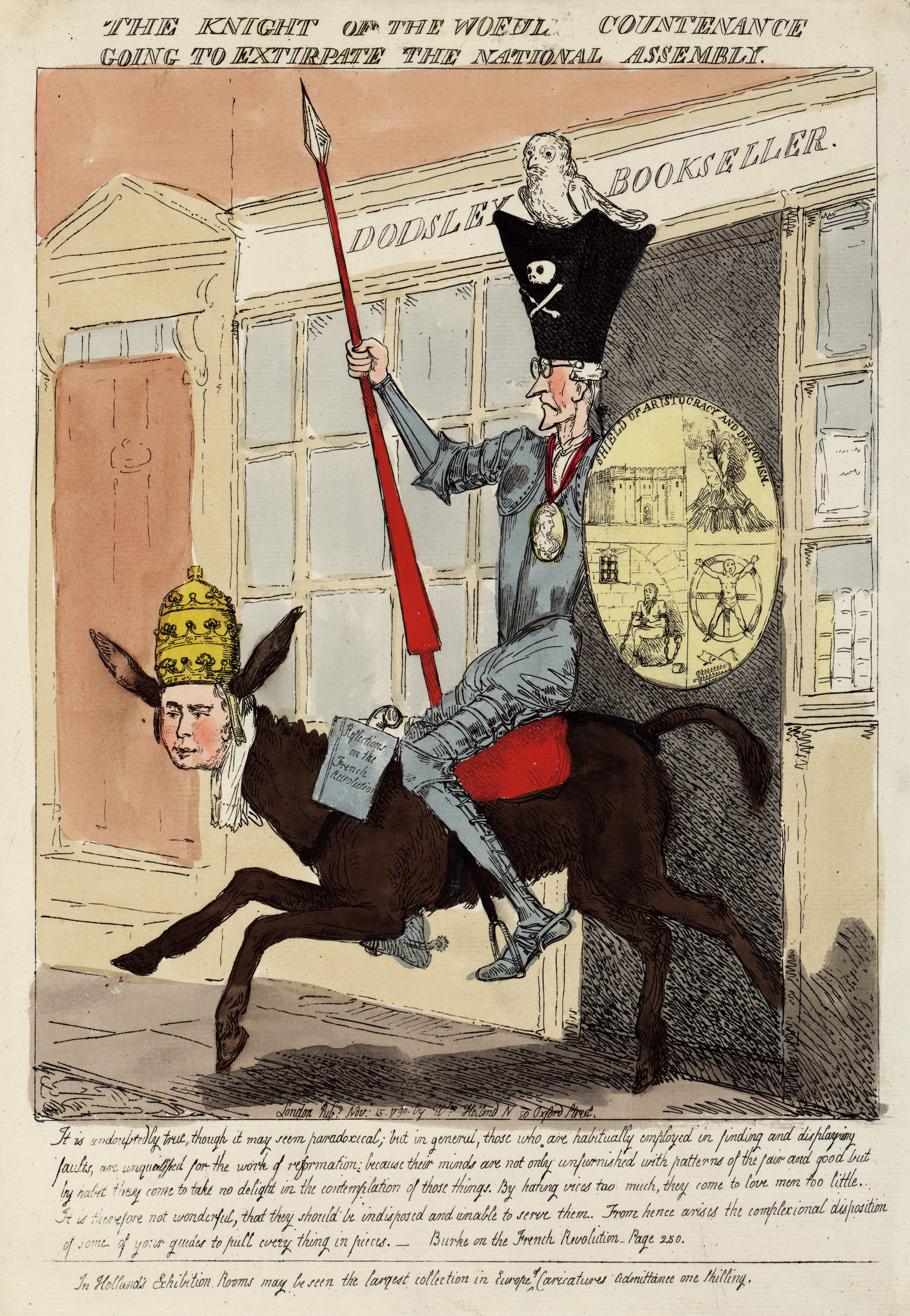 Print shows Edmund Burke as Don Quixote, wearing armor, carrying lance and shield labeled "Shield of Aristocracy and Despotism," riding a donkey, emerging from the doorway to the "Dodsley Bookseller" the publisher of Burke's "Reflections on the French Revolution" which hangs from the horn of the saddle. The head of the donkey has a human face and wears the triple-tiered crown of the pope; depicted on the shield are scenes of torture and death, and a view of the Bastille.